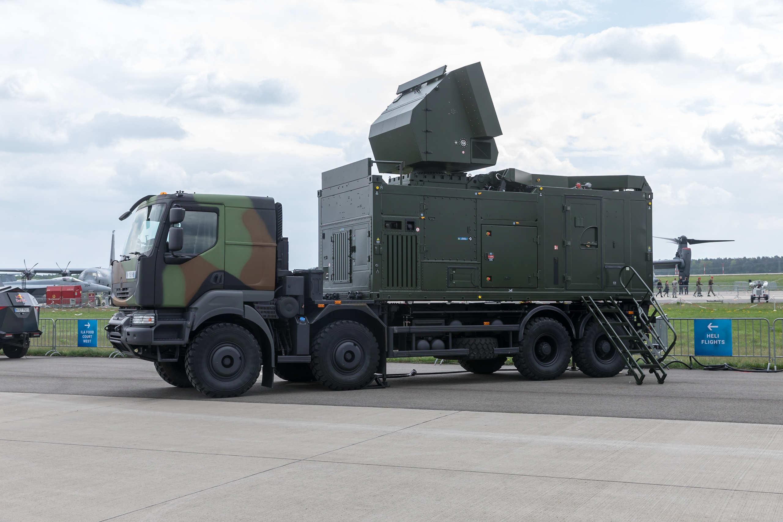 Thales Ground Master 200 on Renault 8x8 truck chassis, ILA 2018